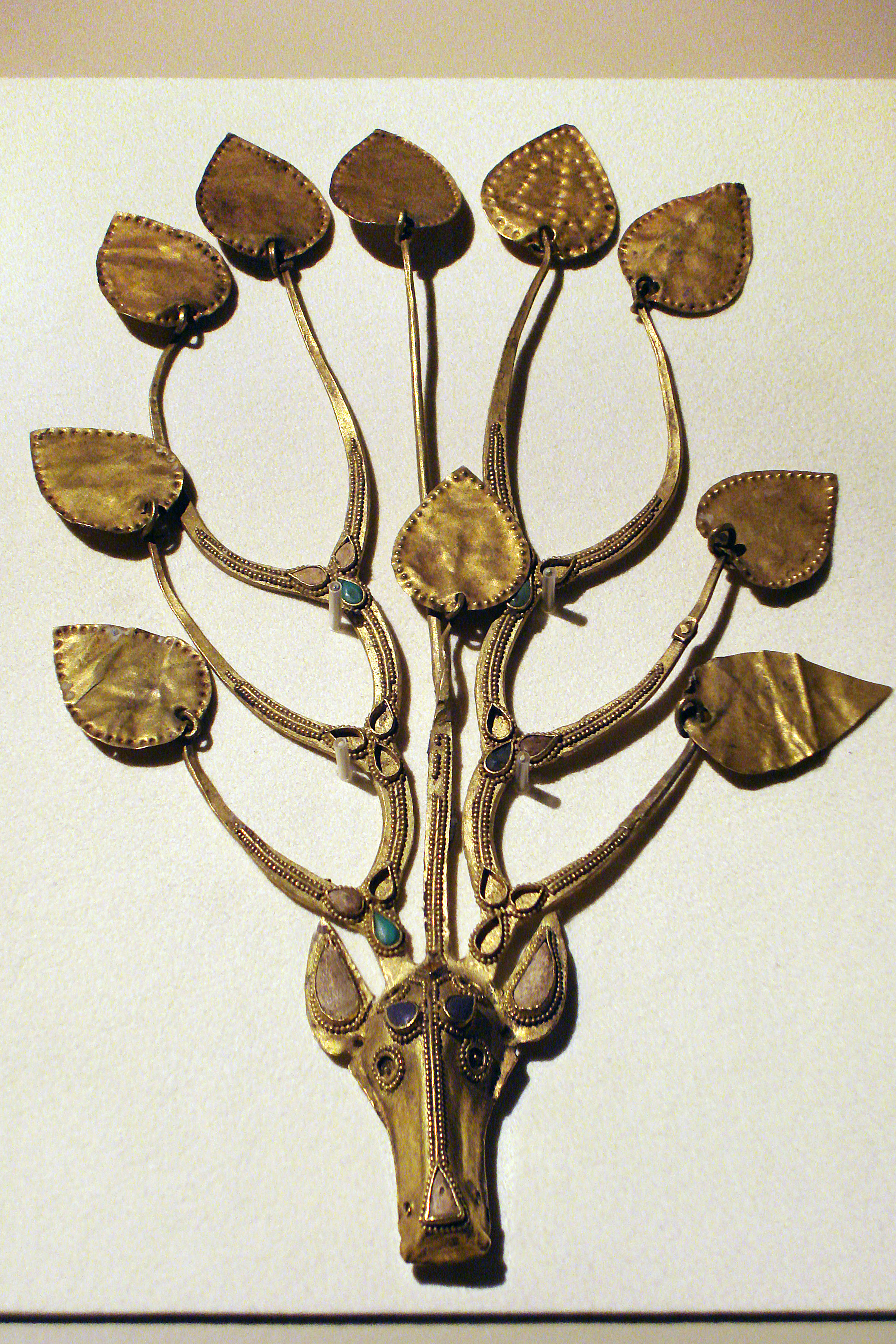 A gold ornament featuring a horse head with antlers Northern Dynasties (A.D. 386 - 581) Excavated at Daerhan Maoming'anqi, Inner Mongolia, 1981 Worn by a Xianbei aristocrat, this ornament features antlers with three branches and ten golden leaves each. The leaves are attached with gold rings to allow them to sway when the wearer moves; this was known as Bu Yao (moving with the rhythm of one's steps). Horses were believed to dispel evil and bring good fortune. Xianbei Headdress